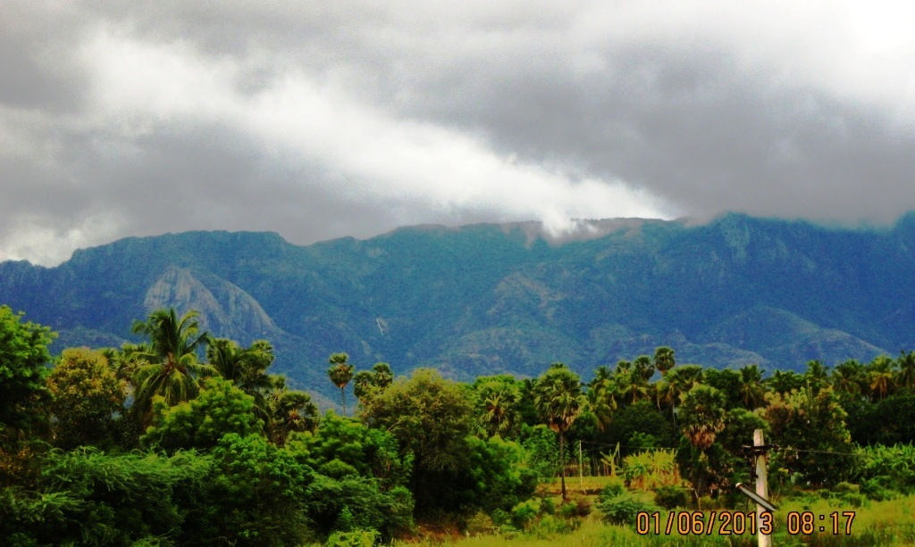 NATURE BOUNDED KALAKAD